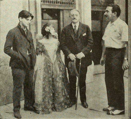 Still from page 65 of the October 1922 Photoplay with caption, "John Drew visits his nephew, Arthur Rankin, at the Paramount Studio where To Have and to Hold is being directed by George Fitzmaurice. Anne Cornwall is the lady in the Elizabethan gown." From left: Arthur Rankin, Anne Cornwall, uncle John Drew (?), and George Fitzmaurice.